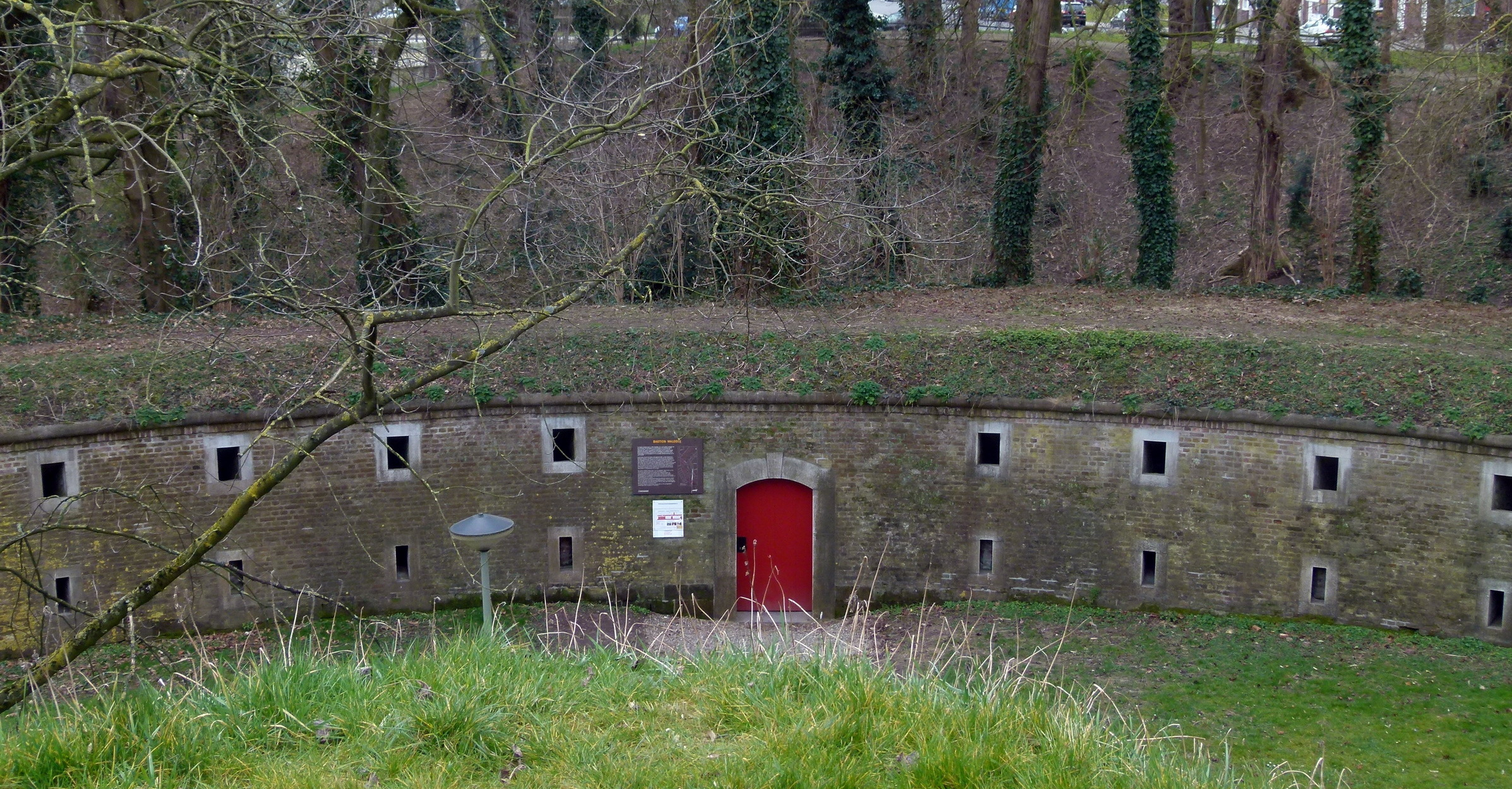 View of Waldeckbastion in Waldeckpark in Maastricht, the Netherlands.